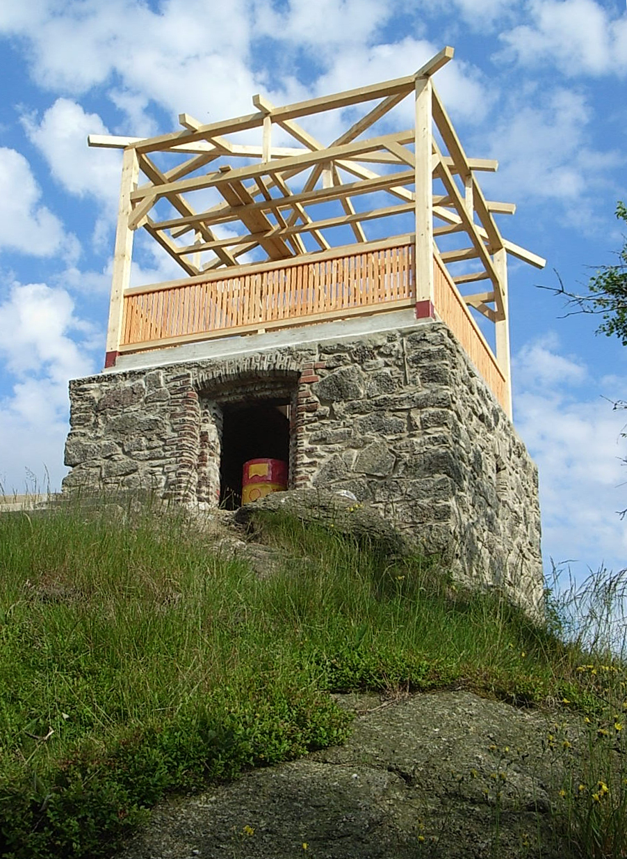 Jeřabina